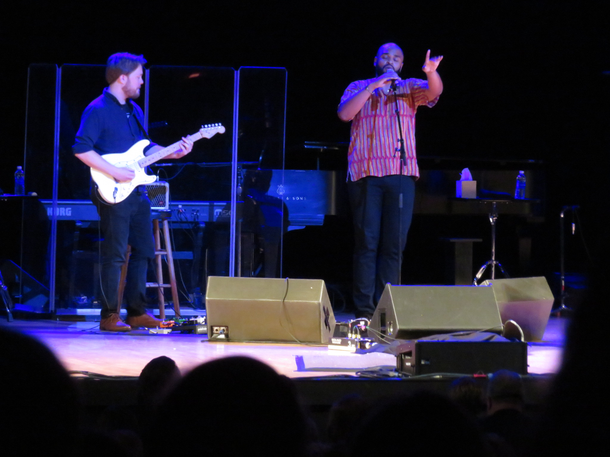 Numa Edema live at Powers Auditorium in Youngstown, OH. Here together with guitarist Ty Tuschen.